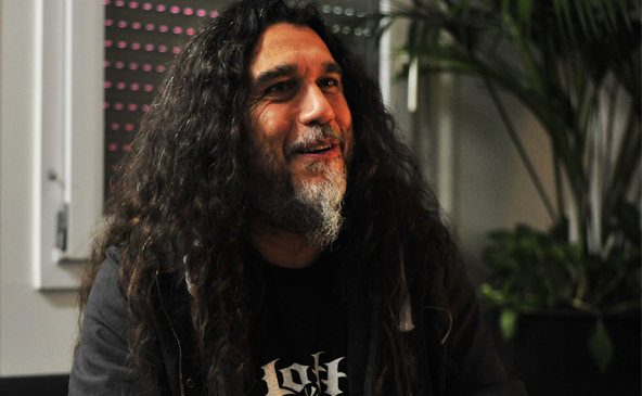 Tom Araya, the lead vocalist and bass player of Slayer.